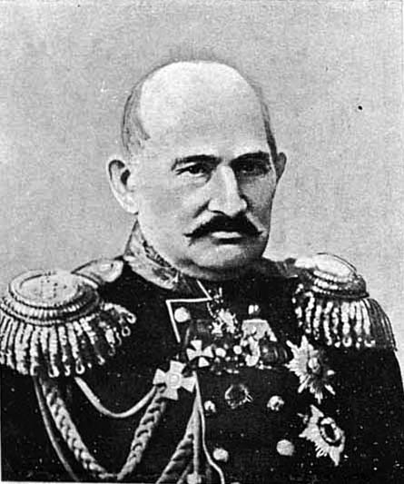 Feldman, Aleksandr Ivanovich.